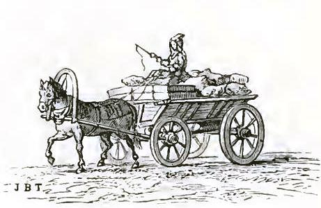 Circassian cart. From: Telfer, John Buchan (1876), The Crimea and Transcaucasia; being the narrative of a journey in the Kouban, in Gouria, Georgia, Armenia, Ossety, Imeritia, Swannety, and Mingrelia, and in the Tauric range. London: H.S. King & Co.